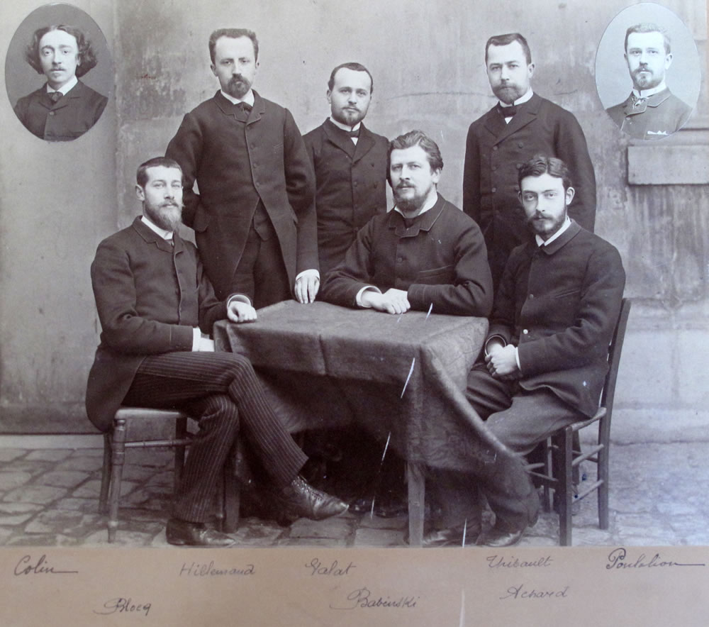 Interns in Salpetriere in 1887, from left to right: (Henri Colin) Paul Blocq, Pierre Hillemand, Salat, Joseph Babinski, A. Thibault, Emile Achard (Poulalion)